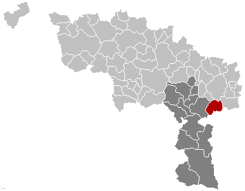 Map, municipality belgium Ham-sur-Heure-Nalinnes